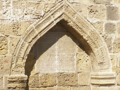 The fountain of the Kucuk Medrese in Nicosia, Cyprus - northern (Turkish) part